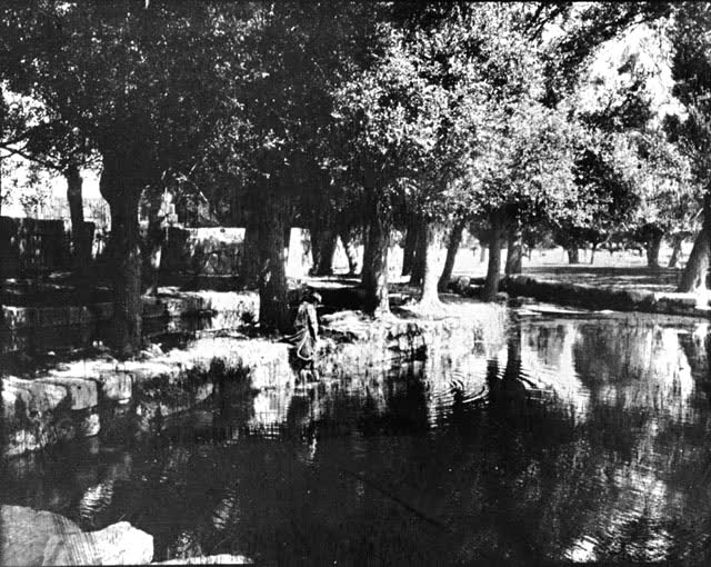 Picture of the Springs at Ras el-Ain in Lebanon, taken in June 1900 by Gertrude Bell